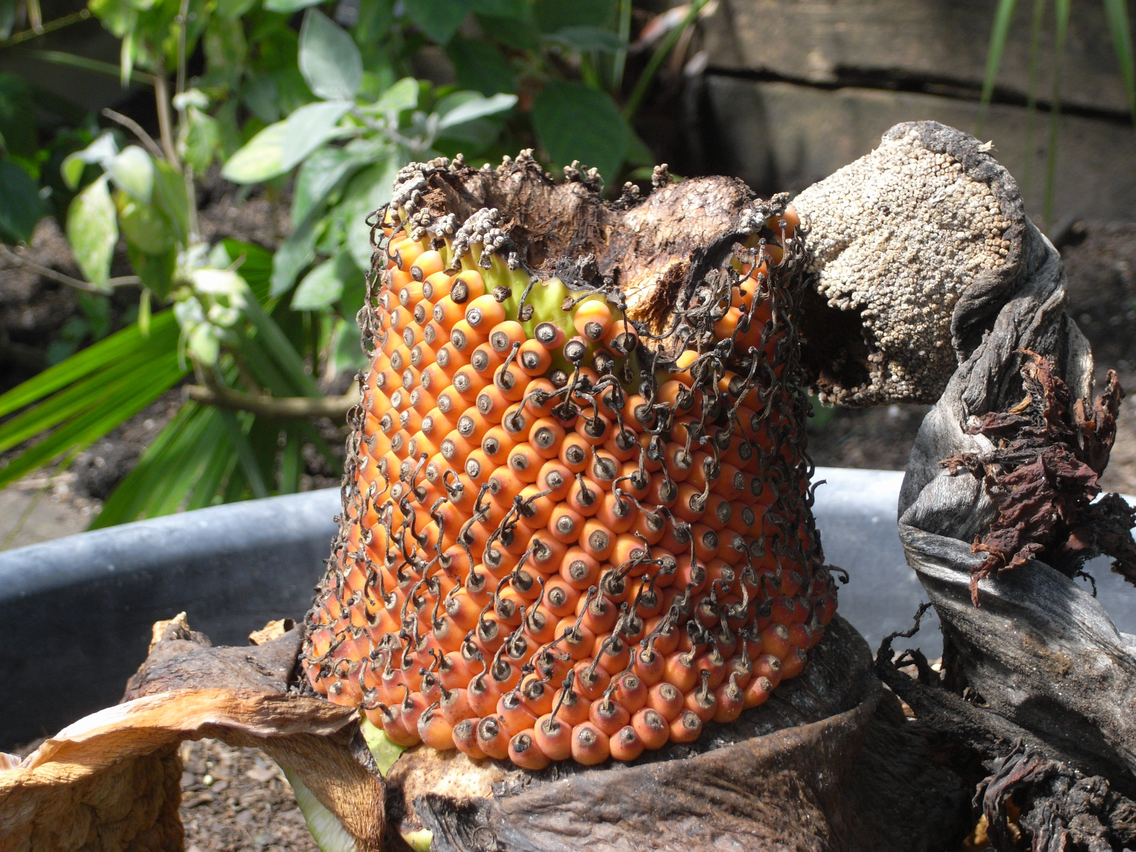 Seed formation on titan arum at Kew Gardens. This is the same plant shown flowering on May 1, 2009, in file:Titan arum Kew 6697.JPG.